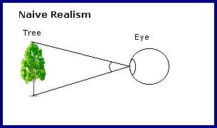 Perception according to the naive realism